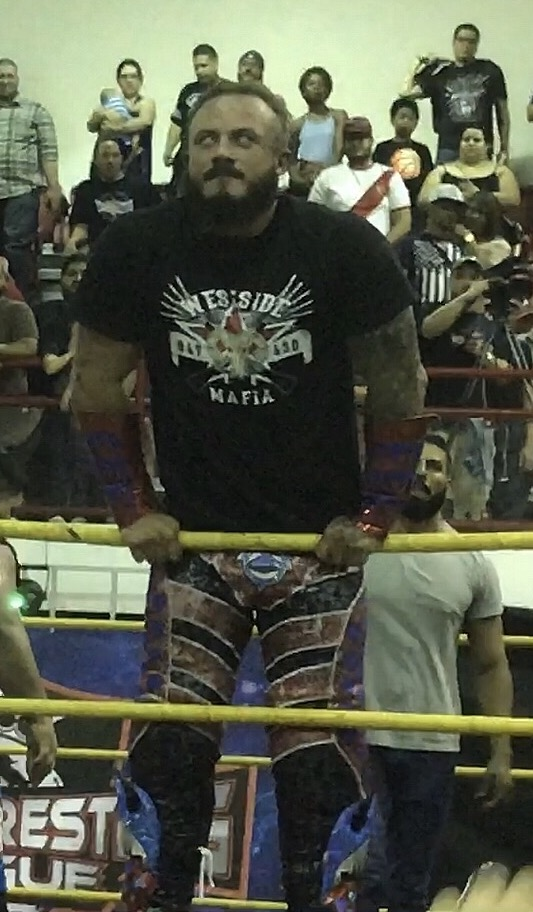 Professional wrestler Mr. 450 after joining the Westside Mafia in the World Wrestling League's Golpe de Estado event. Other information Edited with Motion Stills app.